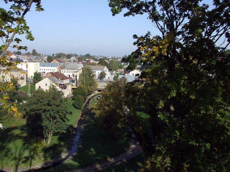 Ukmergė city, Lithuania.